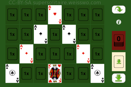 This picture shows how to play Pharaoh′s Grave (solitaire). It is a free cell type solitaire. The screenshot is from my pet project SuperSolitaire for the iPhone.